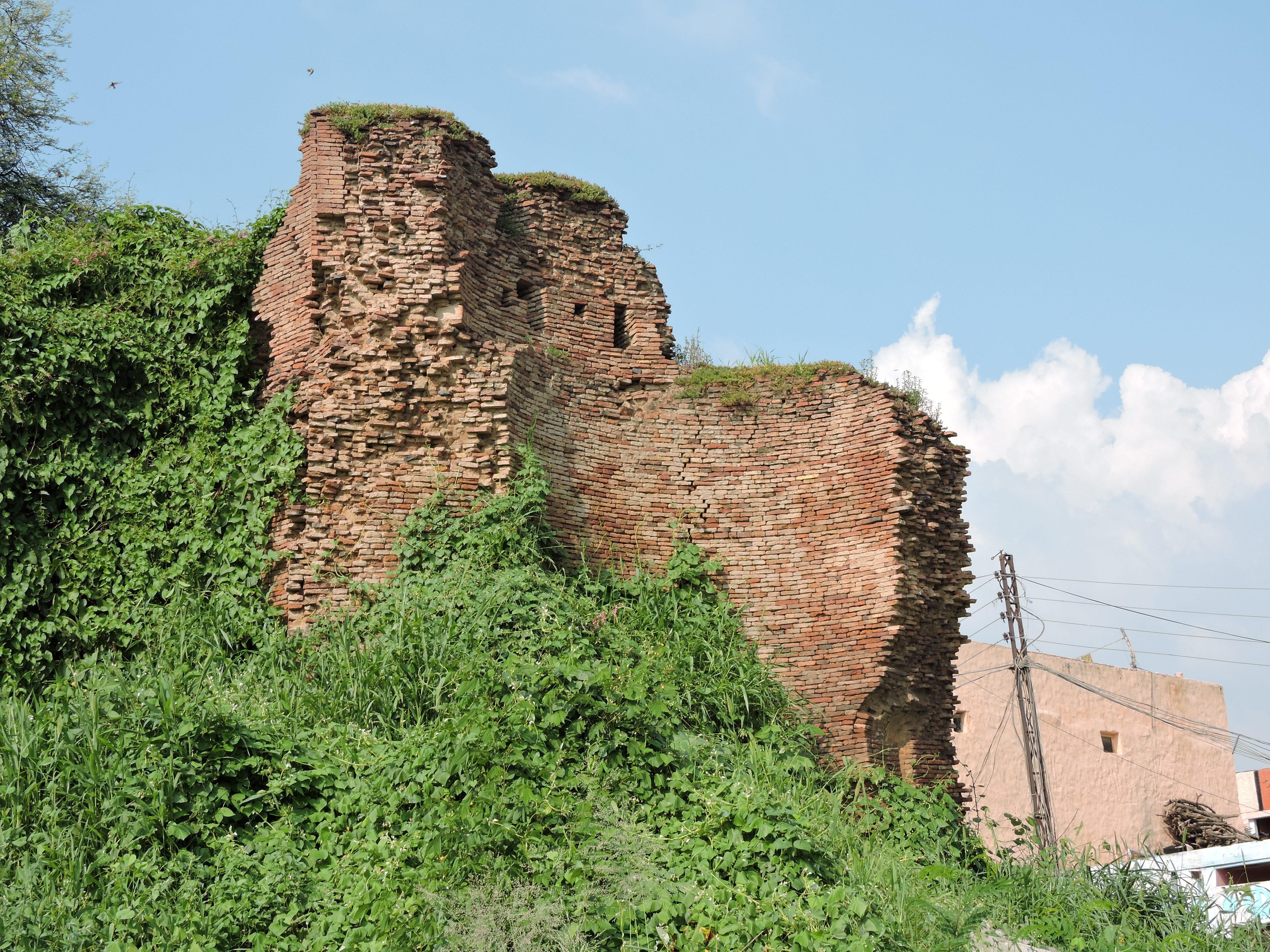 Fort of Kotla Nihang Khan, Rupnagar district,Punjab,India